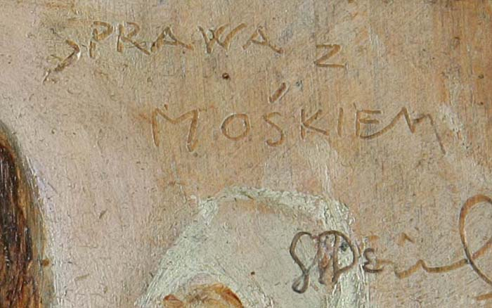 Reychan Stanislaw.signature